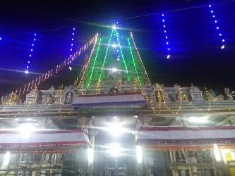 Tiruverkkadu devikarumariamman temple திருவேற்காடு தேவிகருமாரியம்மன் கோயில்